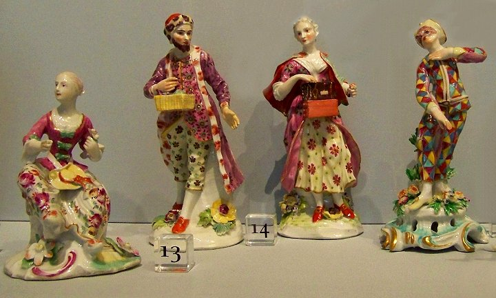 Porcelain — left to right: Seated Girl (~1758, Derby Manufactory, England) Pair of Peddlers (~1758, Derby Manufactory, England) Harlequin (~1760, Bow Porcelain Manufactory, London, England.) In the Detroit Institute of Arts.